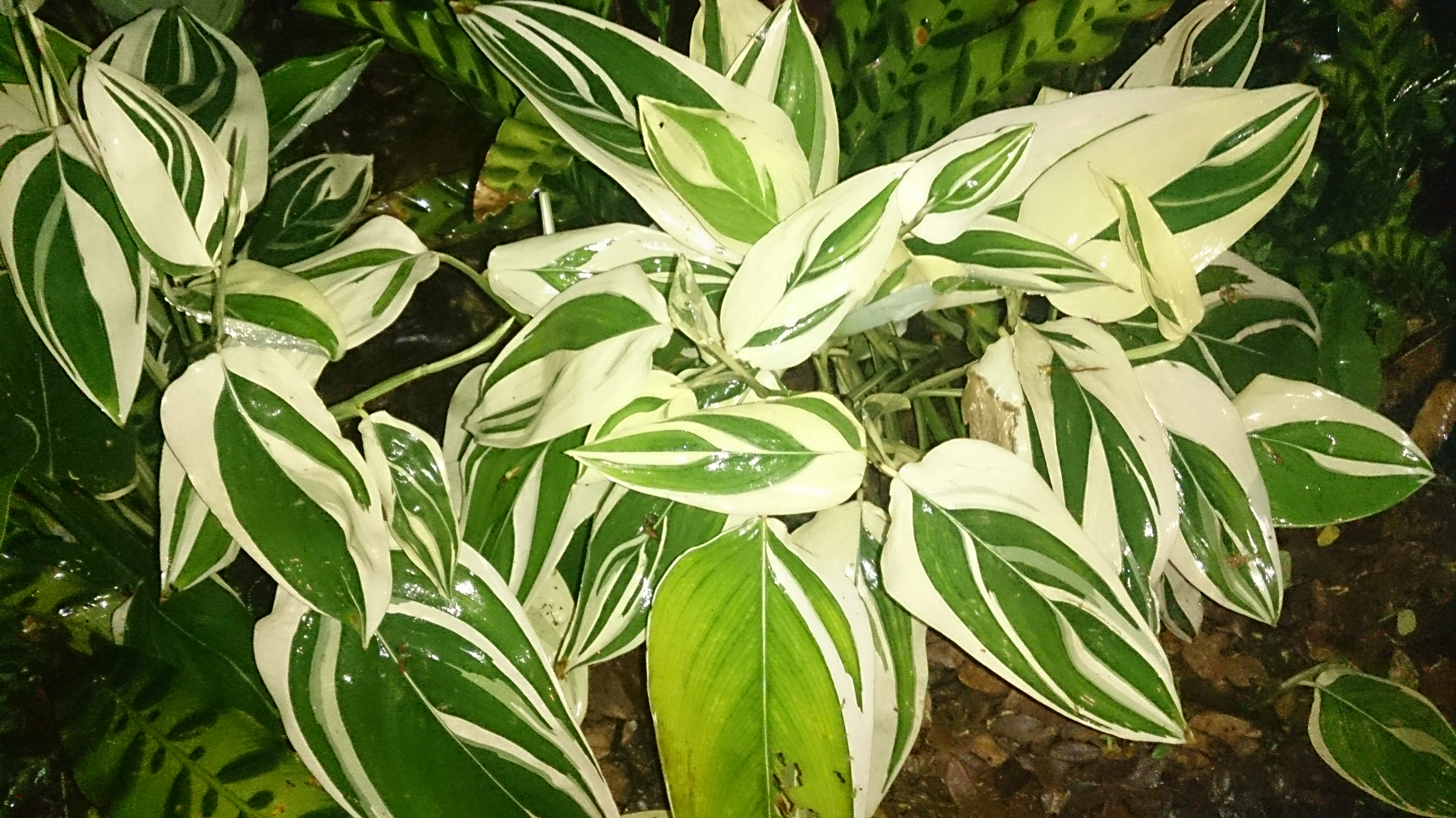 Maranta arundinacea 'Variegata'. Common name: Variegated Arrow Root